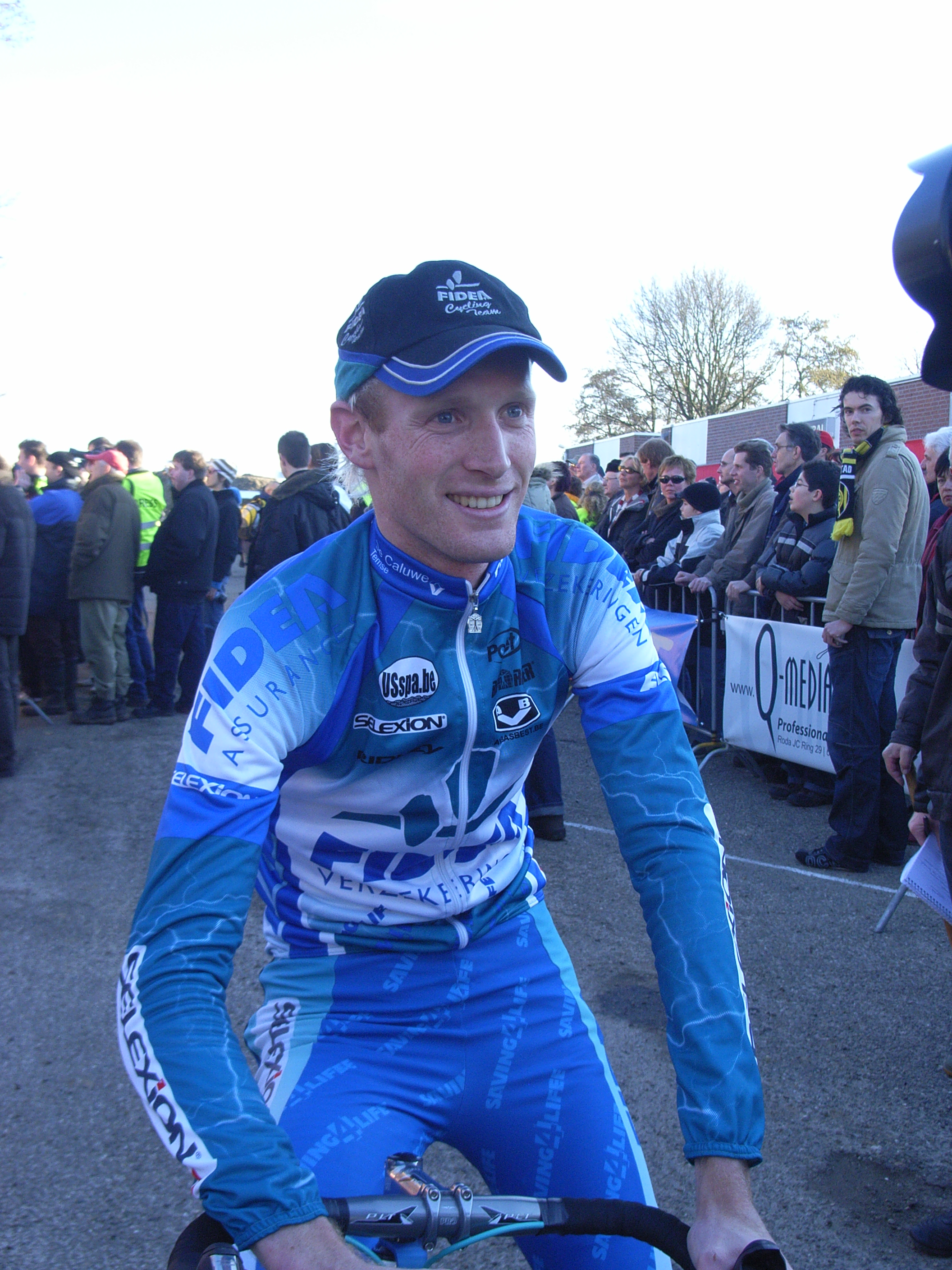 Cyclist Klaas Vantornout after winning in Heerlen.